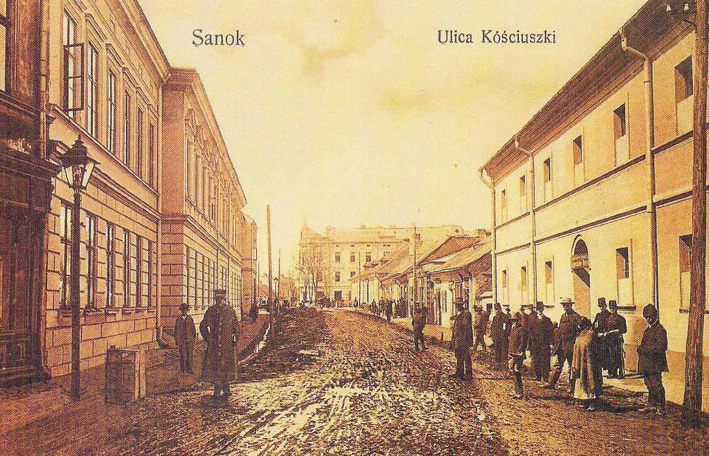 Sanok, 1911